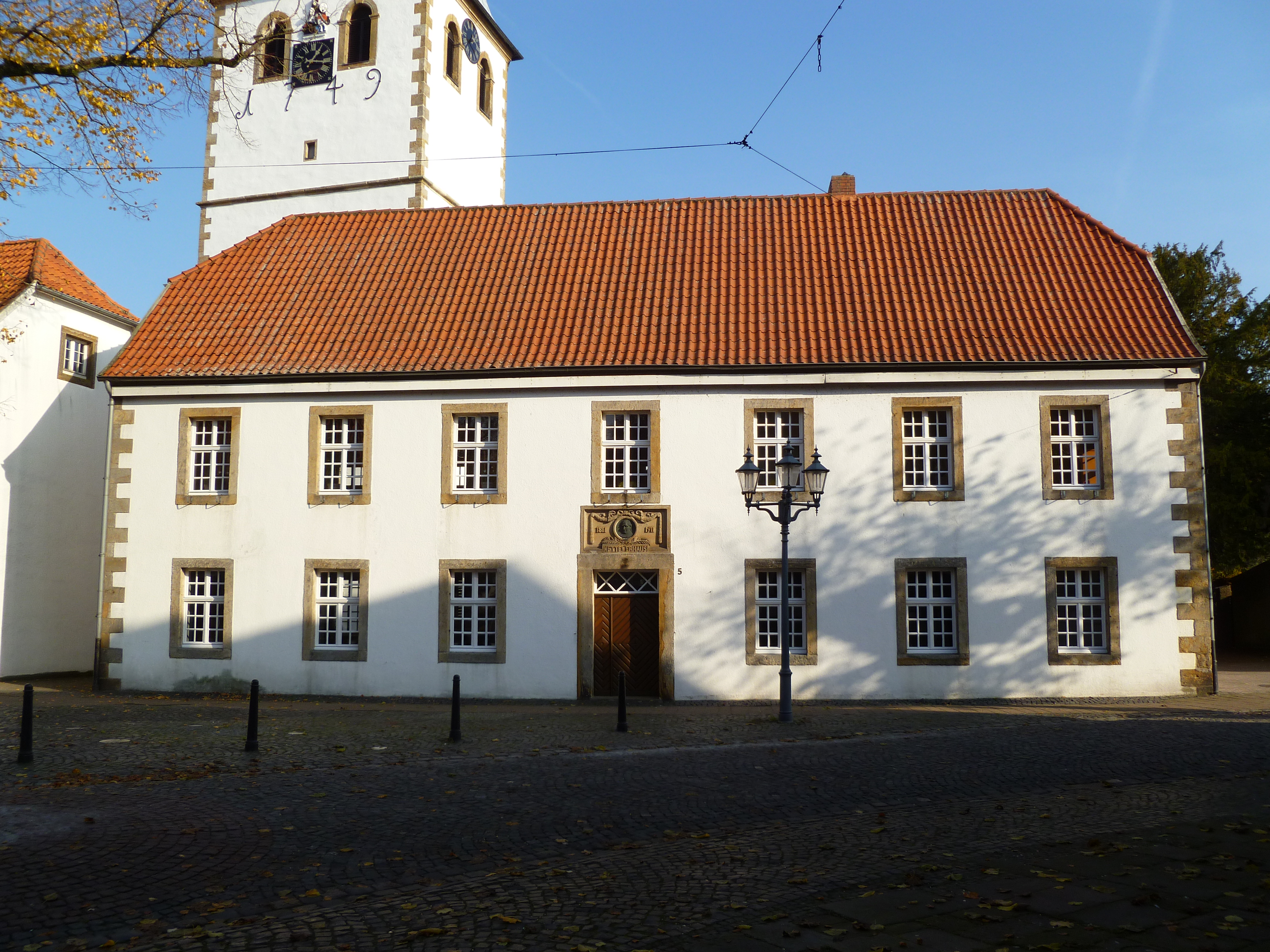 The Kettelerhaus in Hopsten, Kreis Steinfurt, North Rhine-Westphalia, Germany. It is listed as a cultural heritage monument.